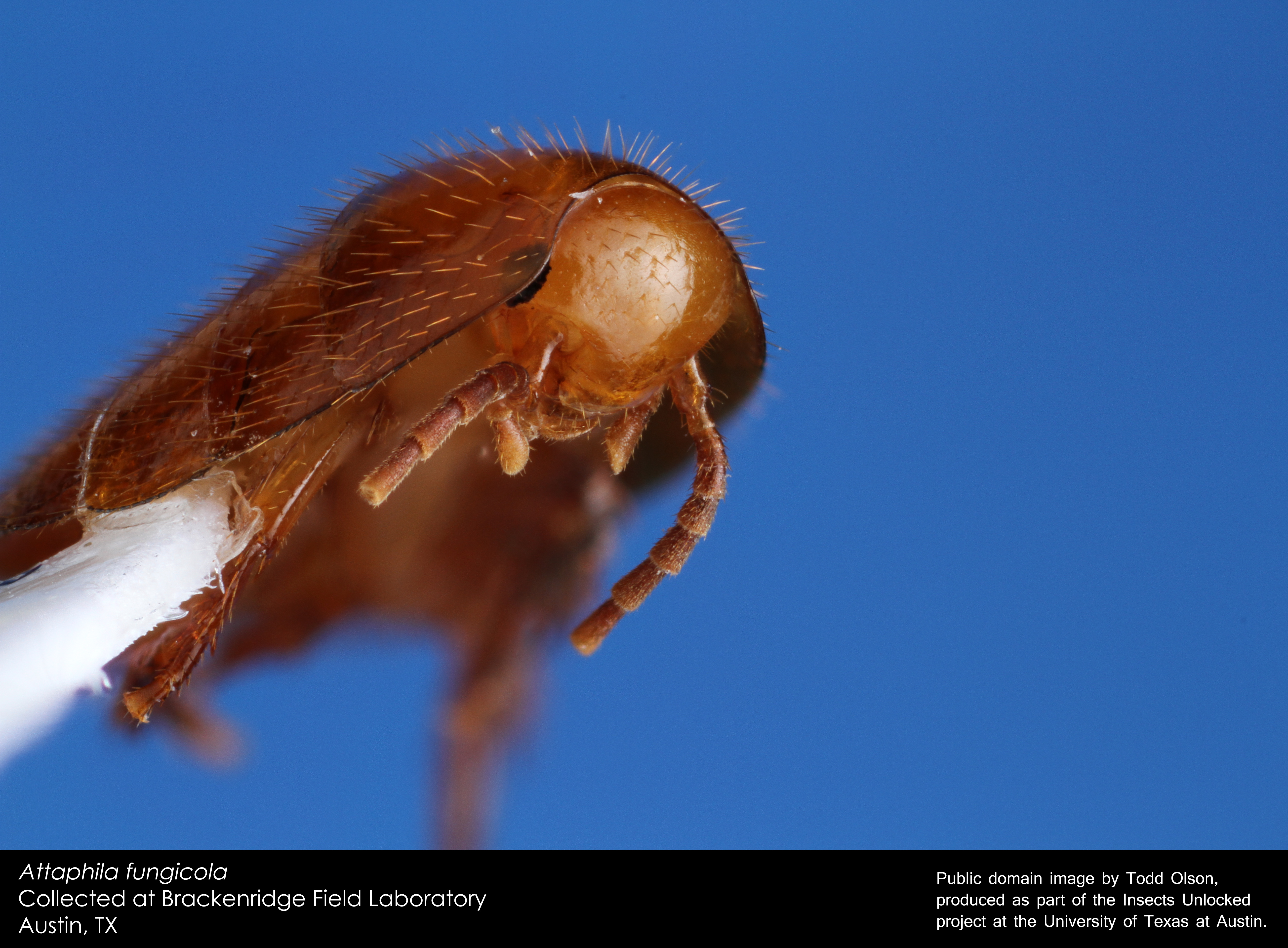 Attaphila fungicola Collected at Brackenridge Field Laboratory Austin, TX 2015